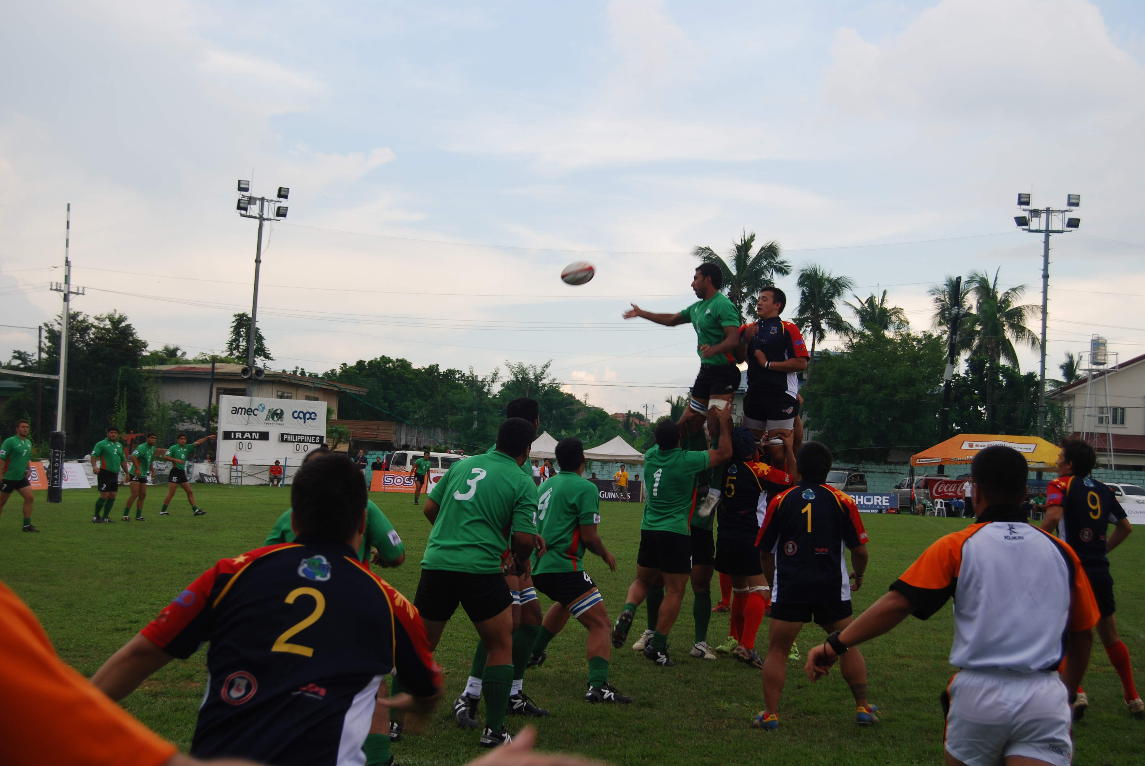 Philippine v. Iran, 2009 Asian Five Nations Division 3 Semifinal.